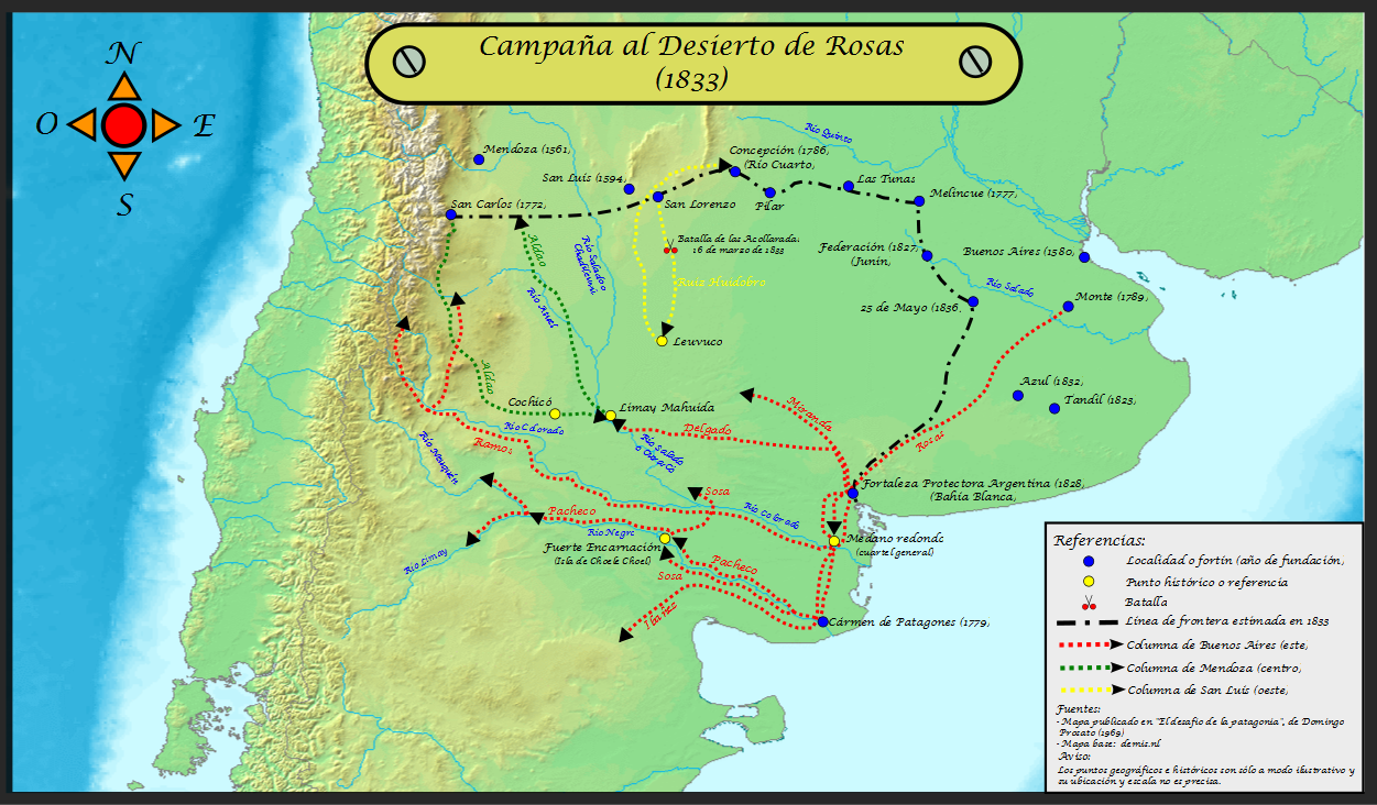 Map of operations in the "Conquest of the desert" by Rosas in 1833.